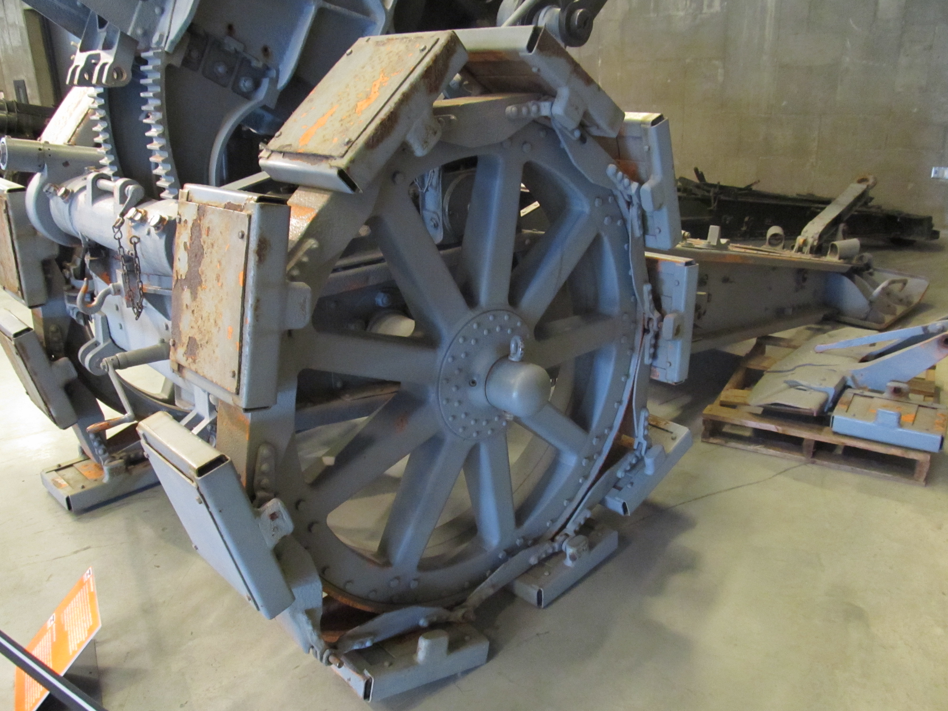 21 cm Mörser 10 at the Canadian War Museum, Ottawa.